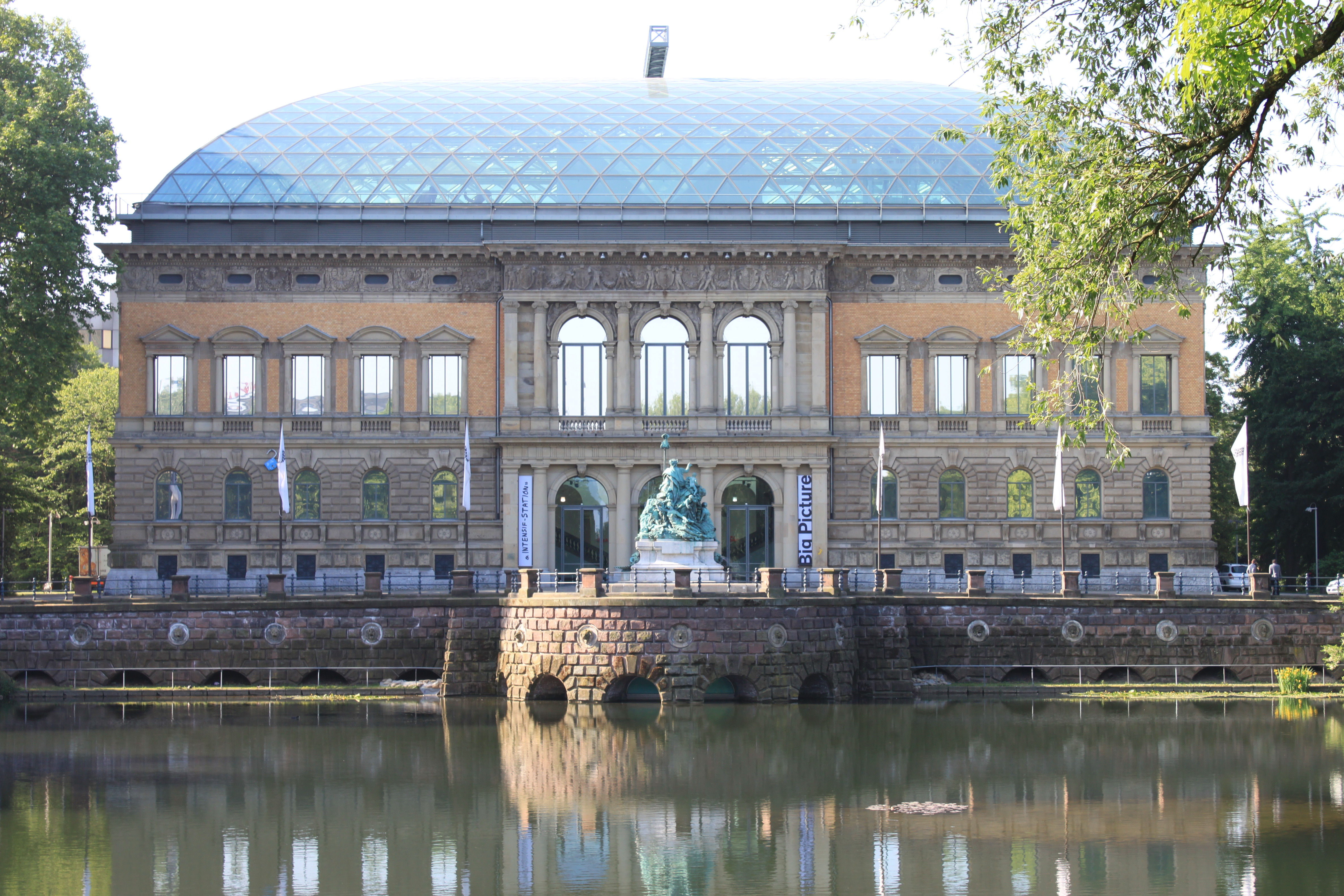 K21 Außenansicht